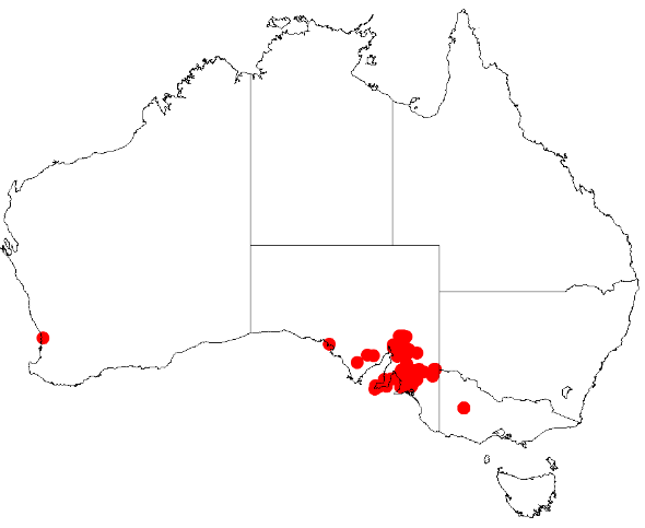 Acacia argyrophylla Occurrence data from Australasia Virtual Herbarium downloaded from on 8 December 2018